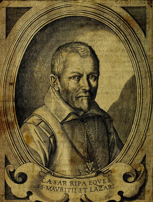 Portrait of the Italian writer Cesare Ripa. In "Della novissima iconologia di Cesare Ripa perugino" (1624)